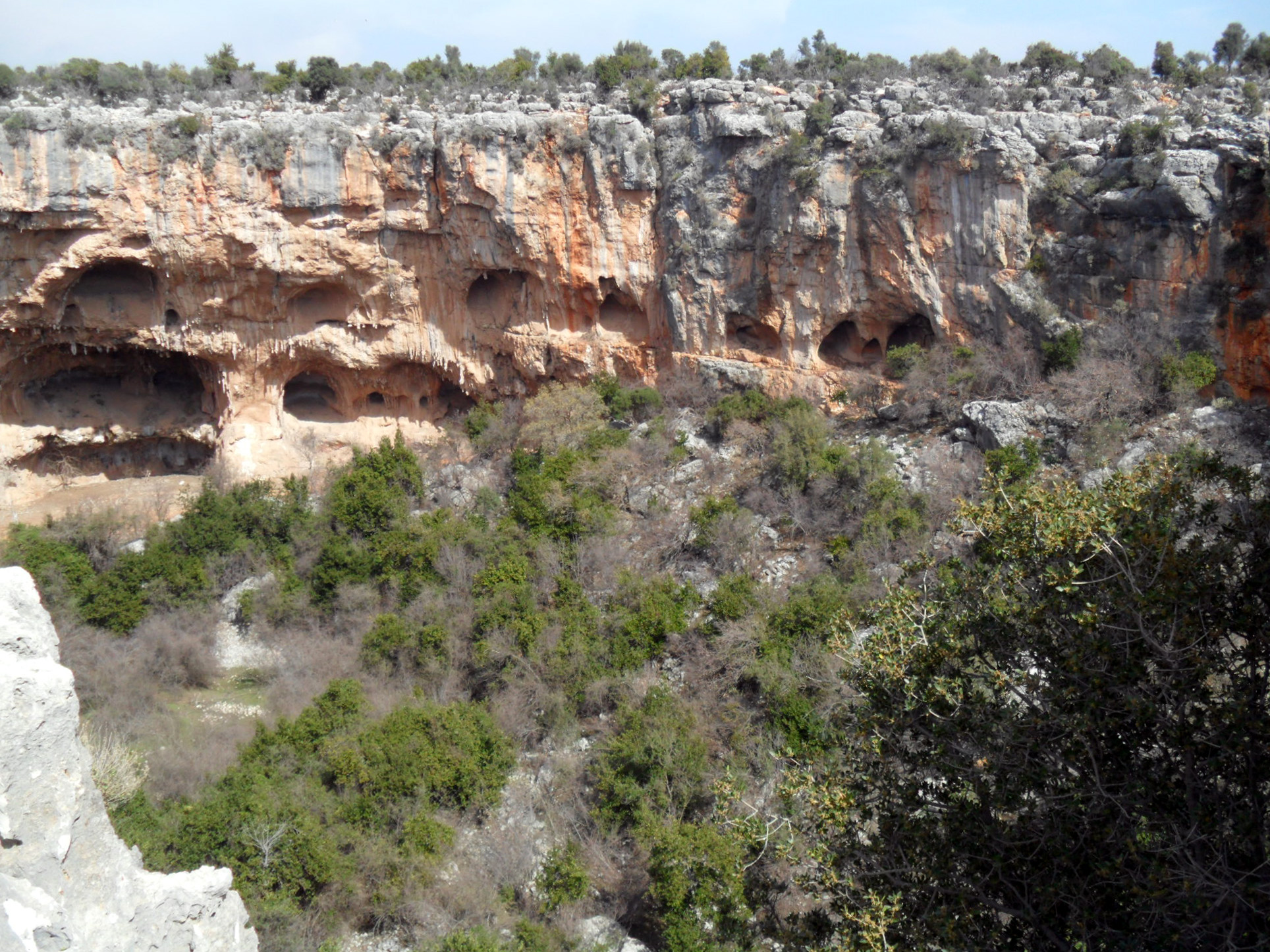 Akhayat sink-hole in Mersin province, Turkey